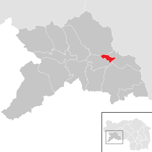 district Murau